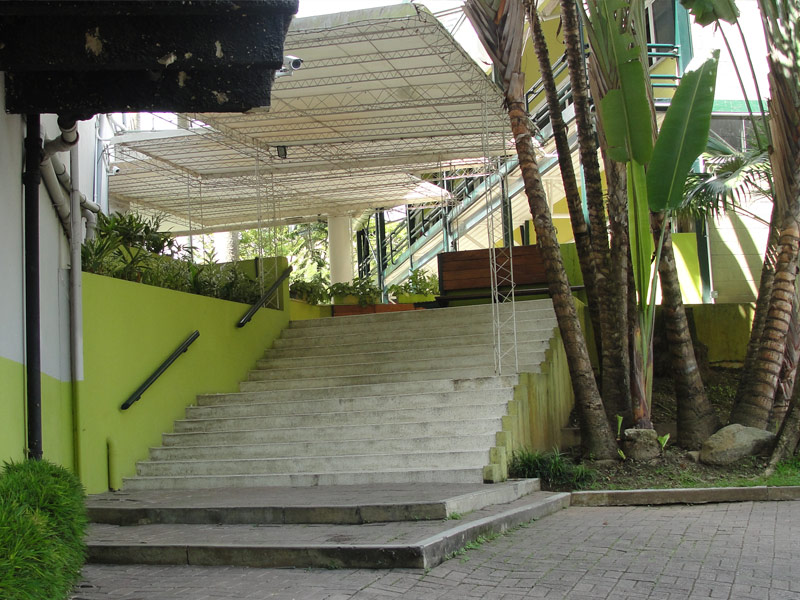 Instalaciones Escuela Nacional de Cine